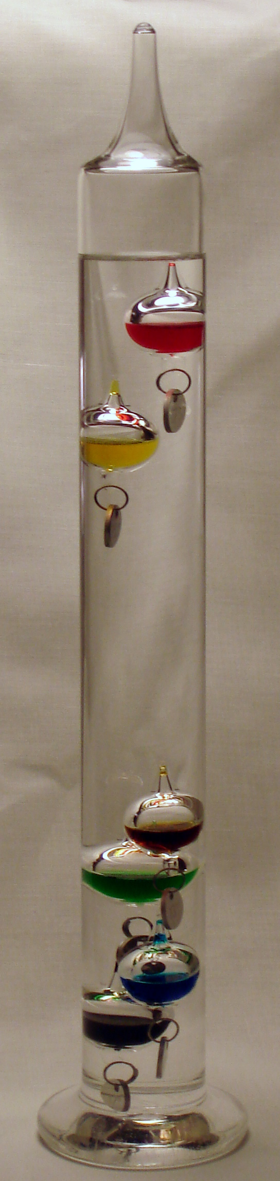 Galileo Thermometer